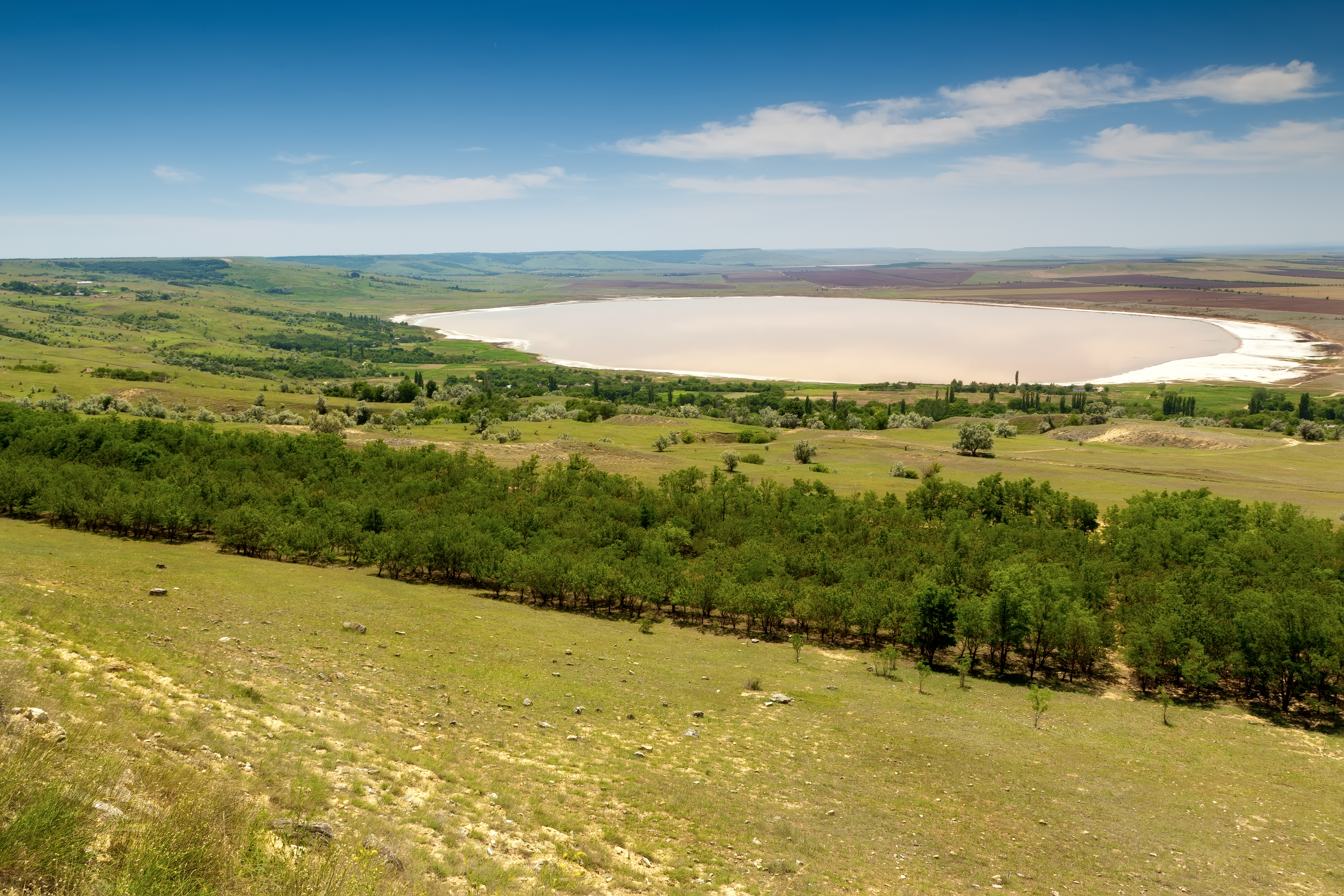 Aerial view from Kutsai hill to Solenoye lake This image is related to the protected area of Russia number 2610109